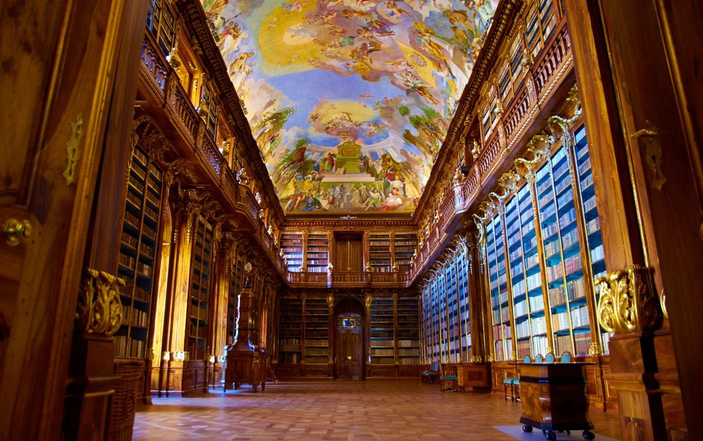 internal view of the local historical library NOTE FOR EDITORIAL/COMMERCIAL USE: In case of editorial/commercial use of this picture, in addition to my permission, a further explicit consent from the owners of the elements depicted in the image, could be eventually needed, for which I may try to provide more info. In this sense, I was allowed with a prepaid photo ticket to take and eventually use the picture, however a specific written consent is not effectively available.